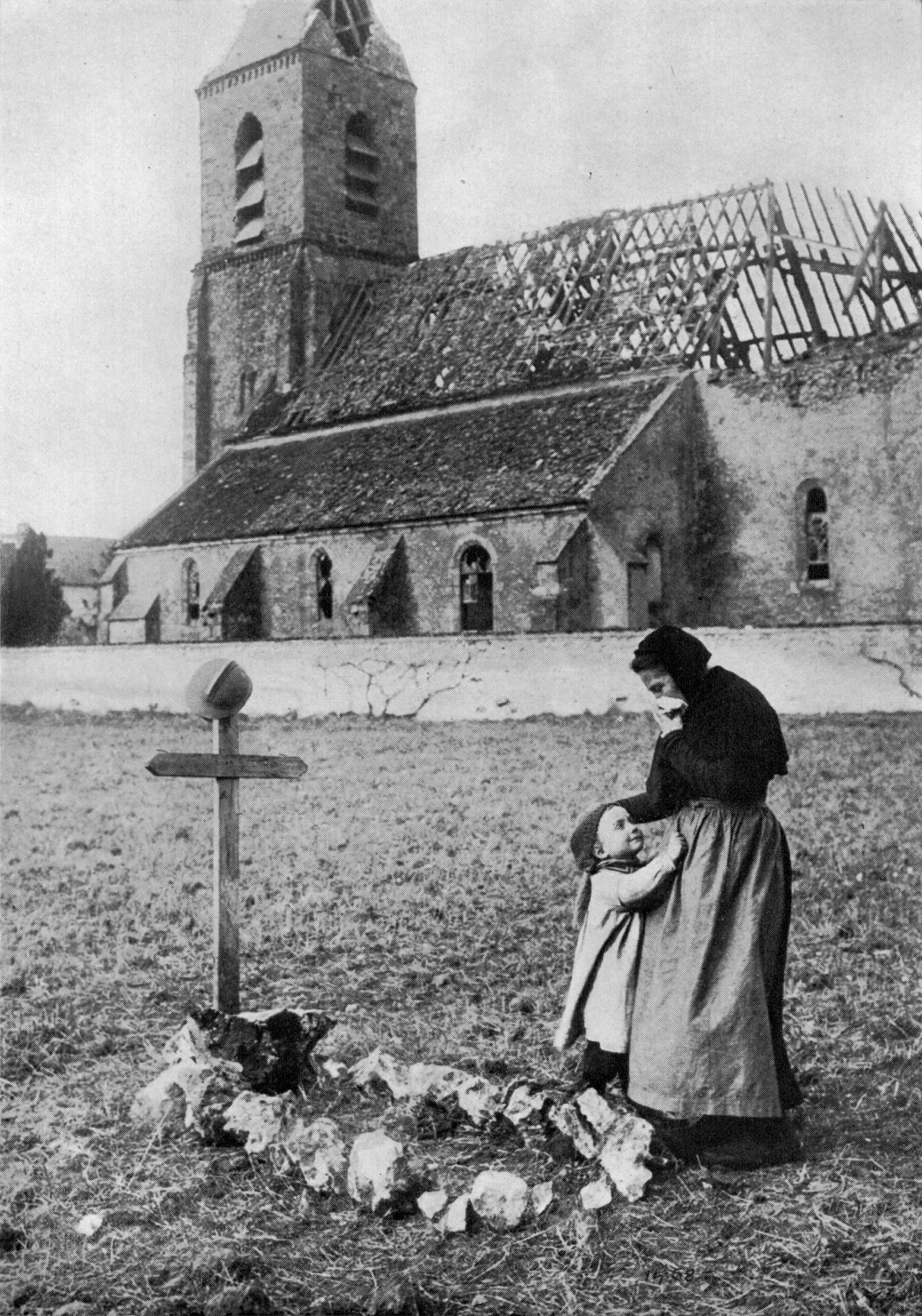 A MADONNA OF SORROW AT HER SON'S GRAVE. If the sympathy of the civilized world cannot still the anguish of the moment, the ages to come will venerate such heroic women who taught their sons the highest bravery, the finest courtesy, the loftiest honor—and who gave their all for France.